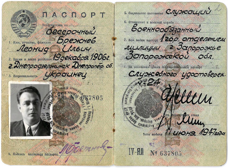 Brezhnev L.I.'s passport of 1947